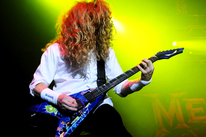 No Sleep Til Festival 2010